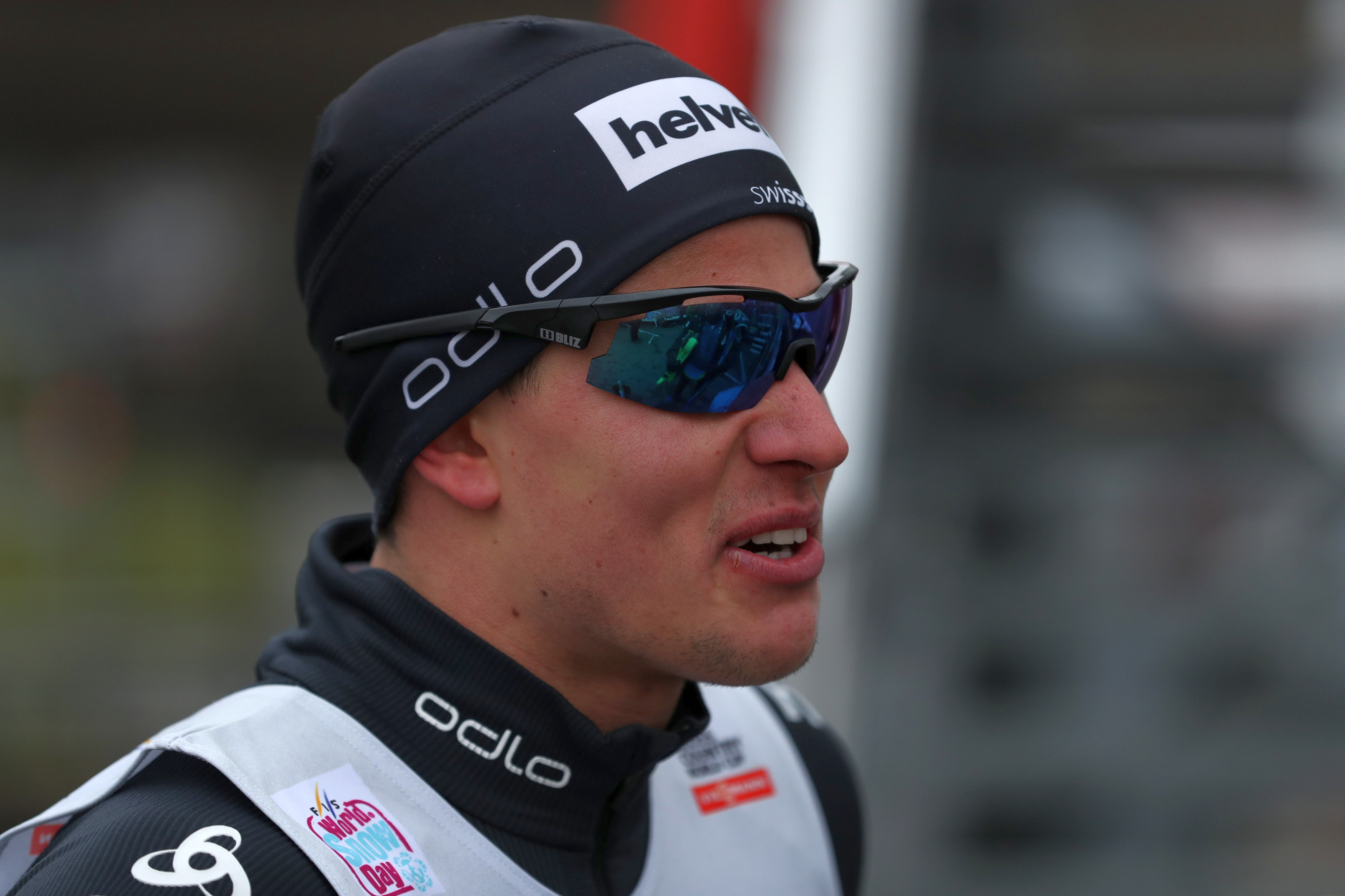 Mens Semifinal at the FIS Cross-Country World Cup Dresden 2018: Roman Schaad